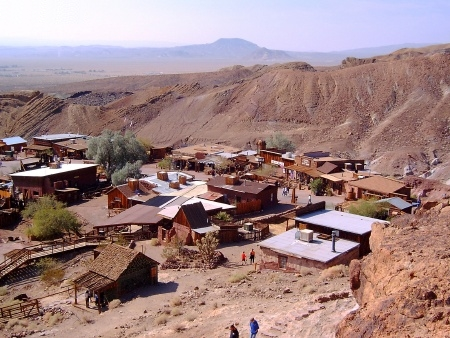 Calico Ghost Town, California